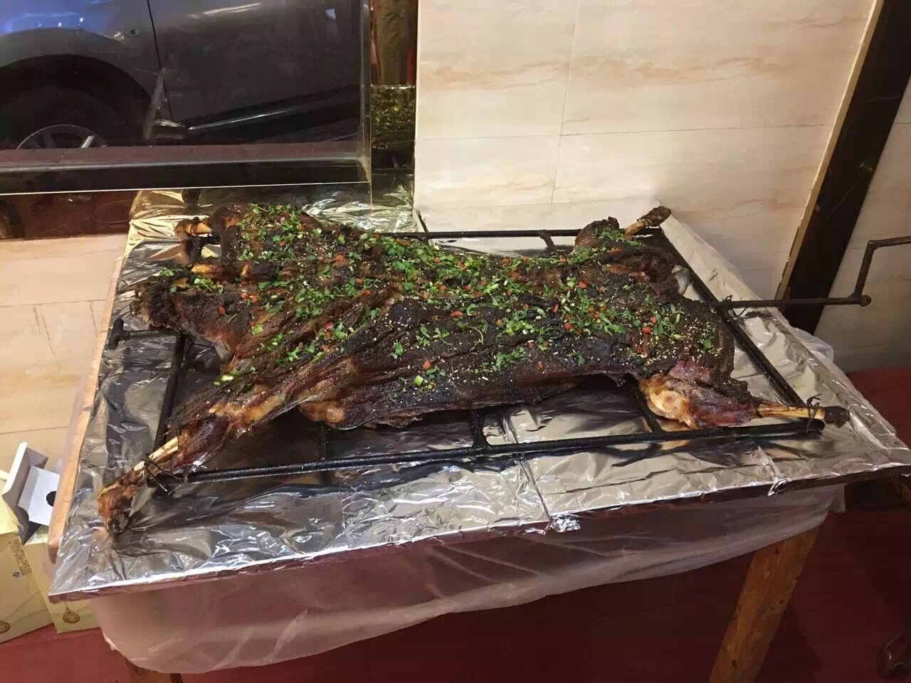 Roast Whole Lamb